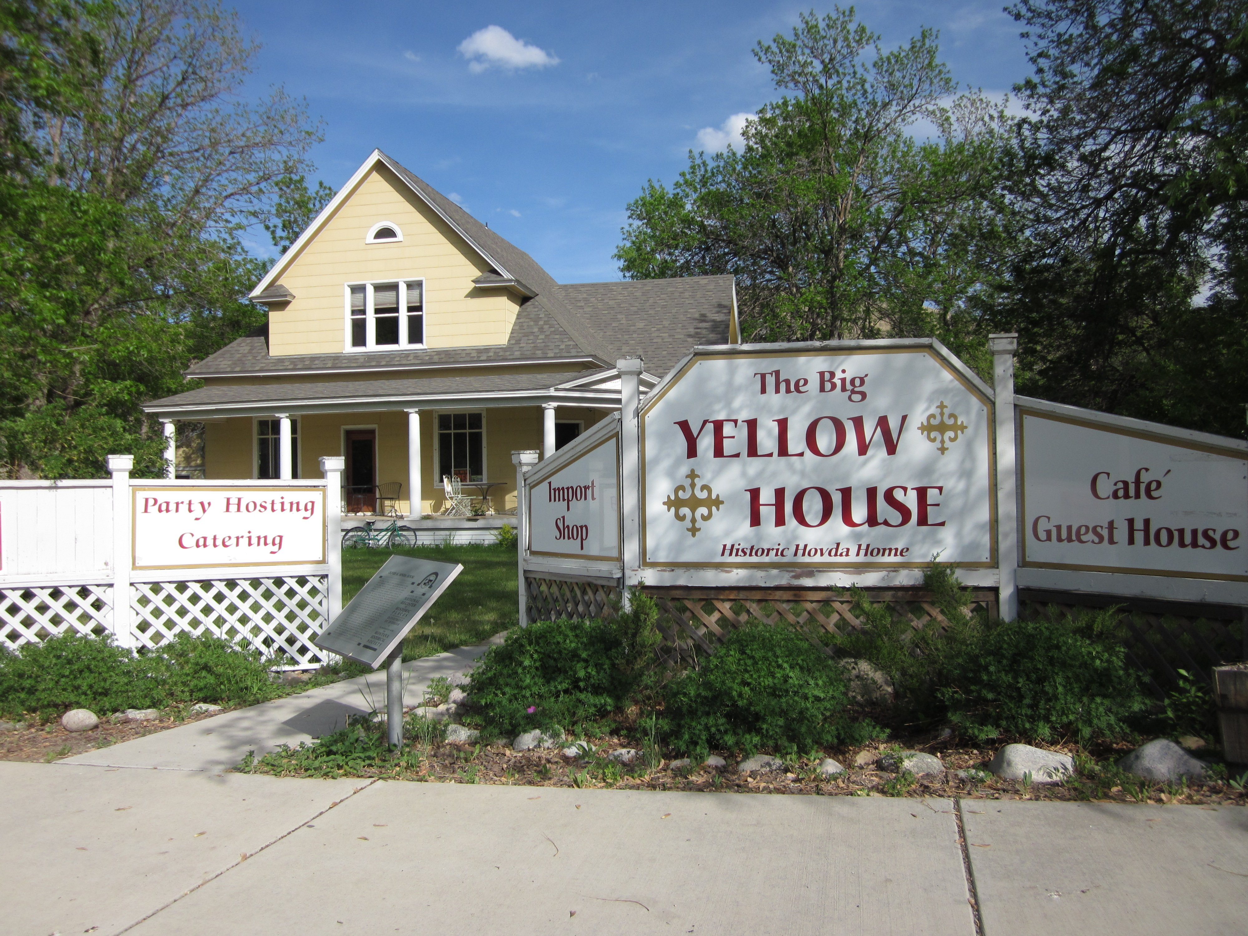 The Big Yellow House in Absarokee, Montana listed on the National Register of Historic Places